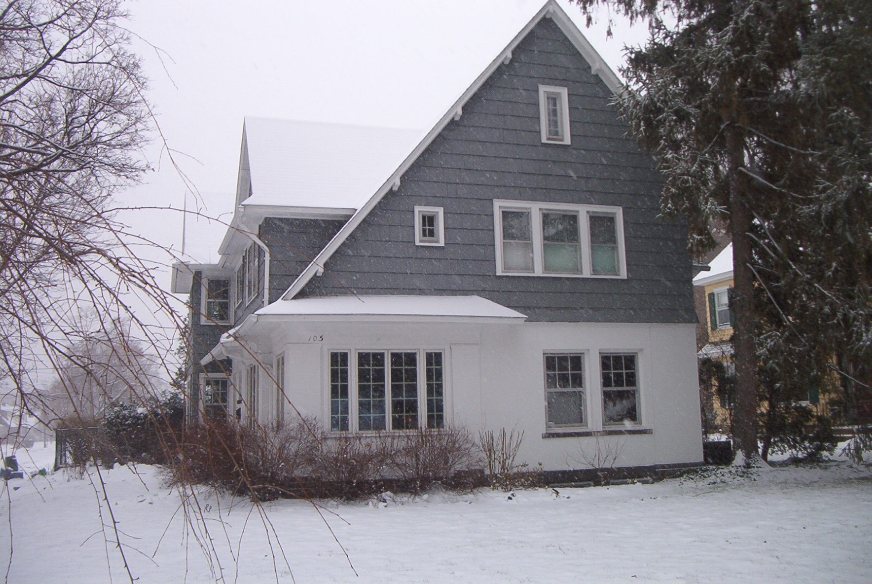 Clark House, 105 Strathmore Drive, Syracuse, New York. Pic 2.